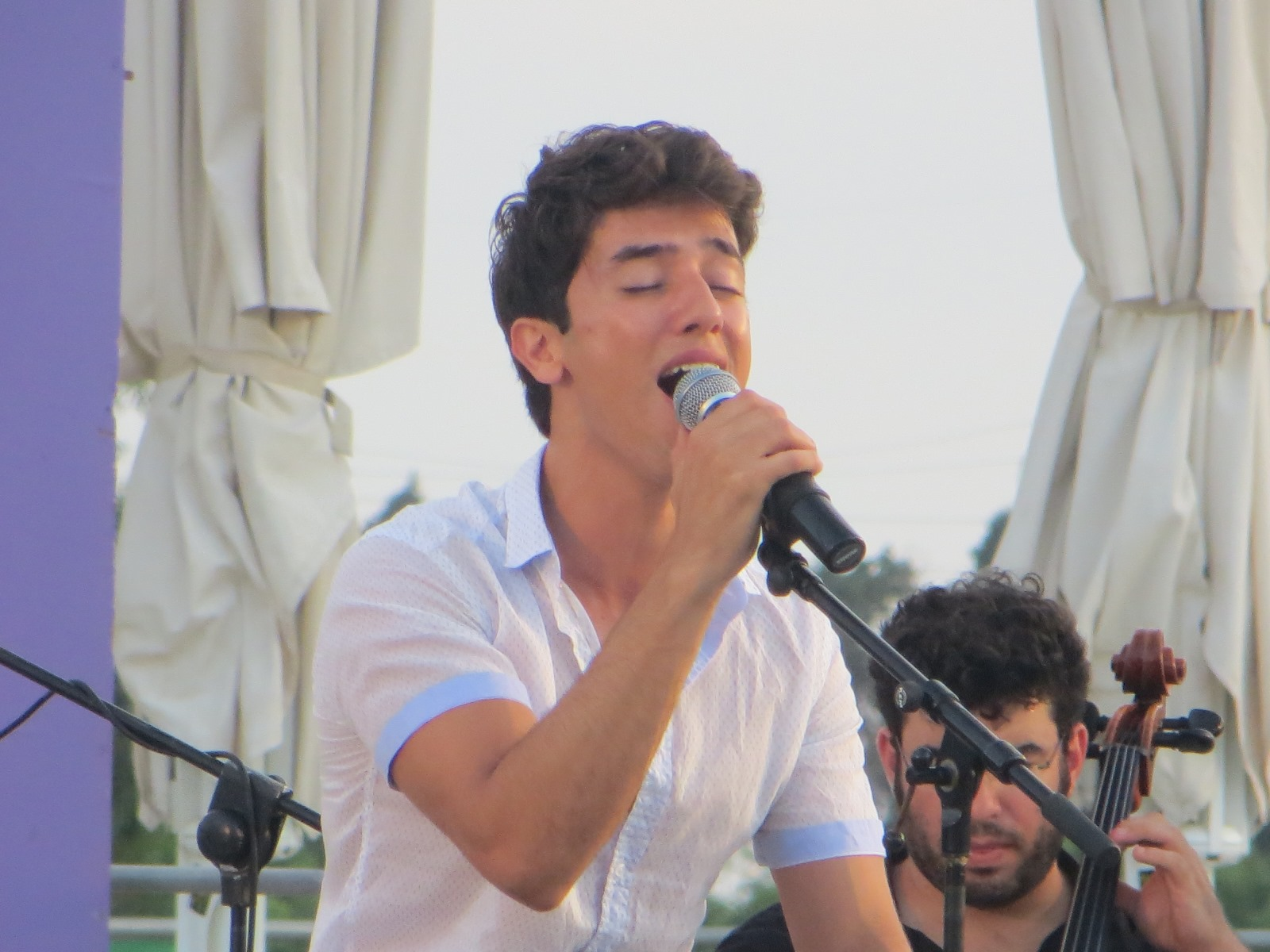 Entertainment